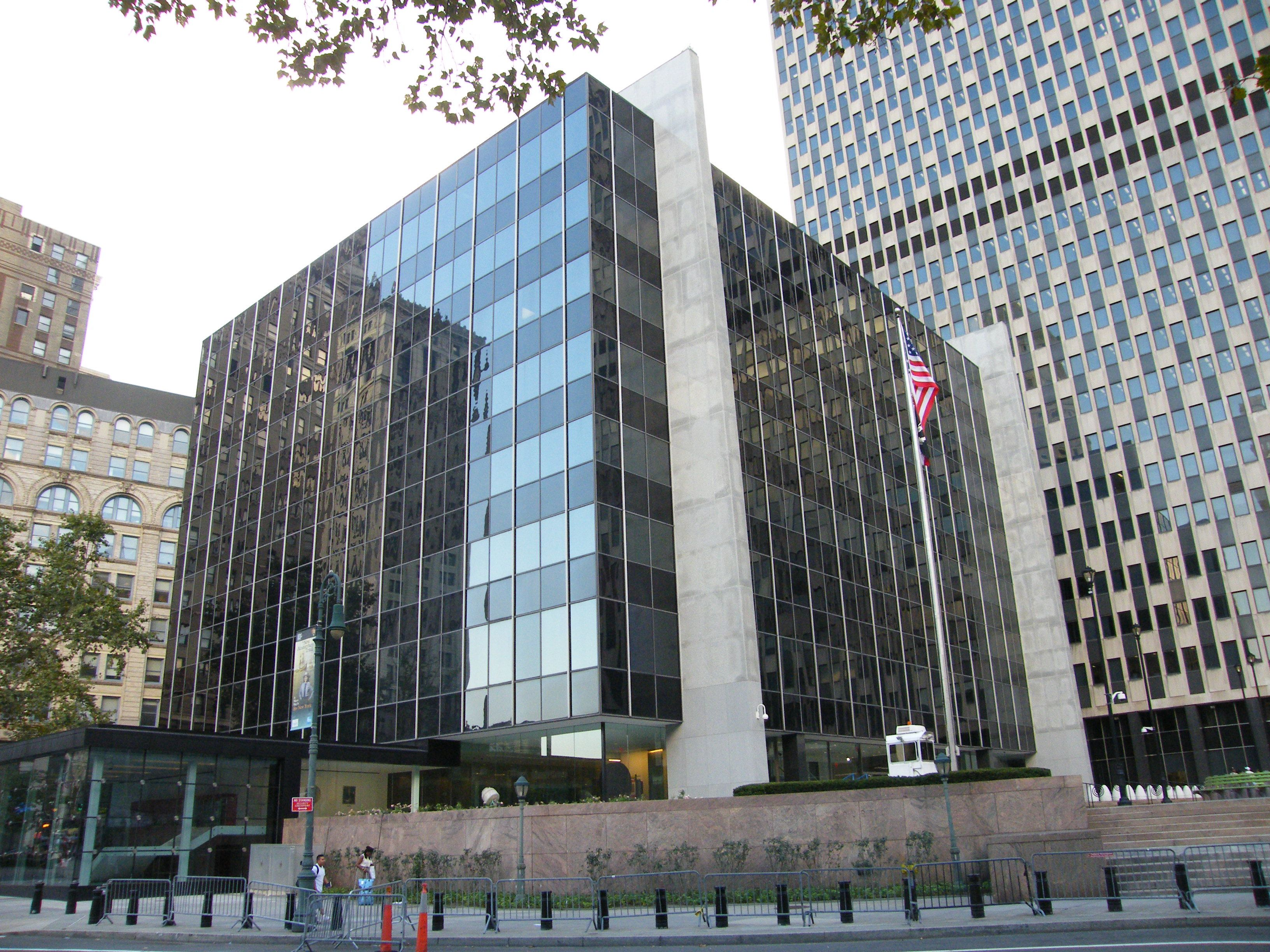 James L. Watson Court of International Trade Building